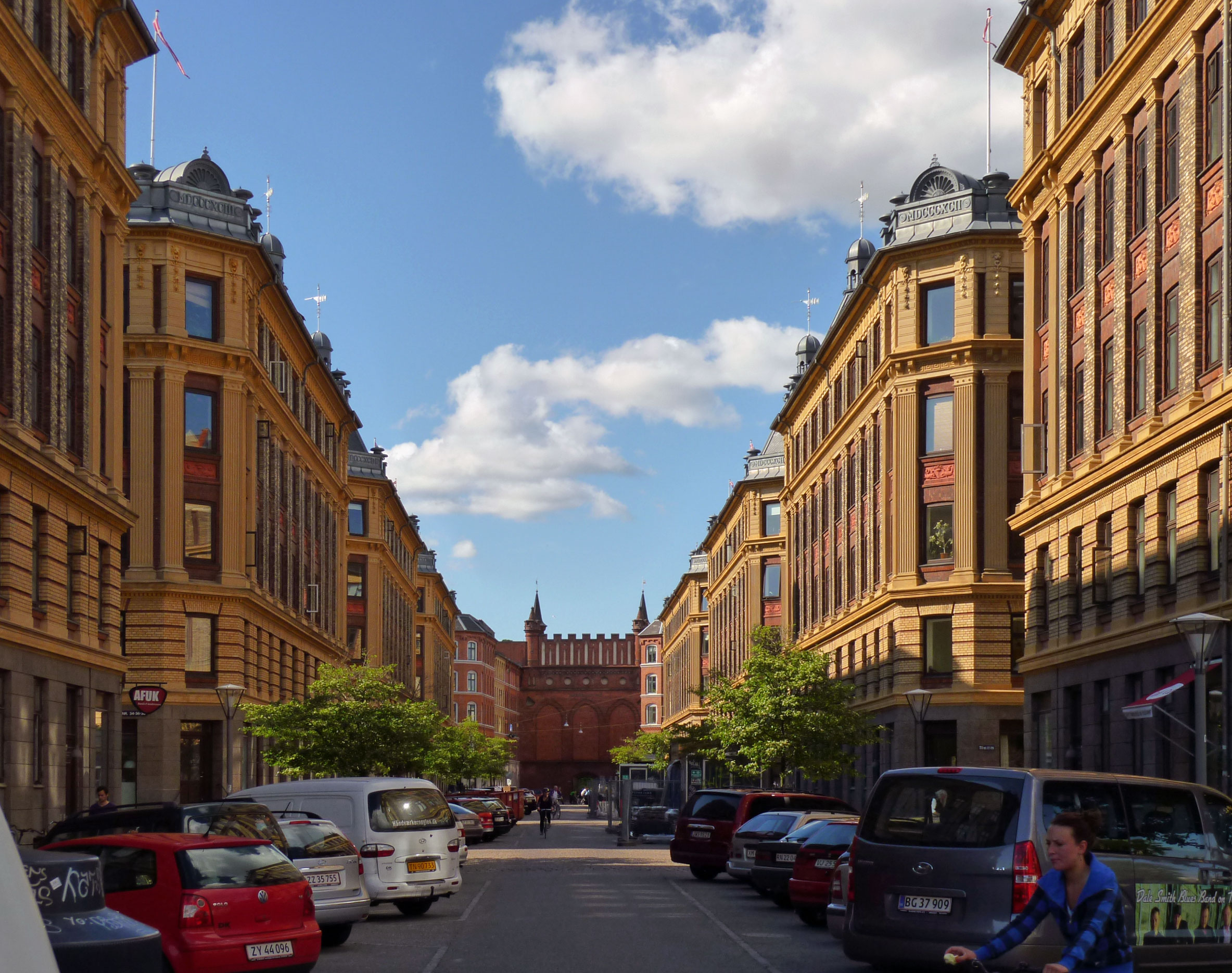 Skydebanegade in Copenhagen, Denmark. On the other side of the wall at its end lies the small community park Skydebanehaven (the Shooting Range Garden).